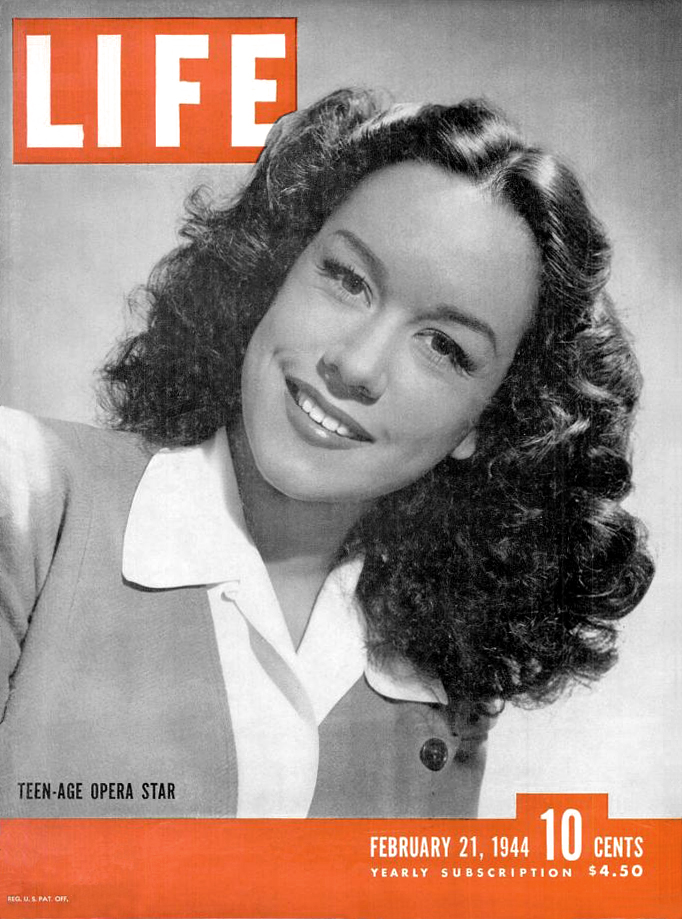 Front cover of the February 21, 1944, issue of Life magazine, featuring Philippe Halsman photograph of Patrice Munsel captioned "Teen-Age Opera Star"